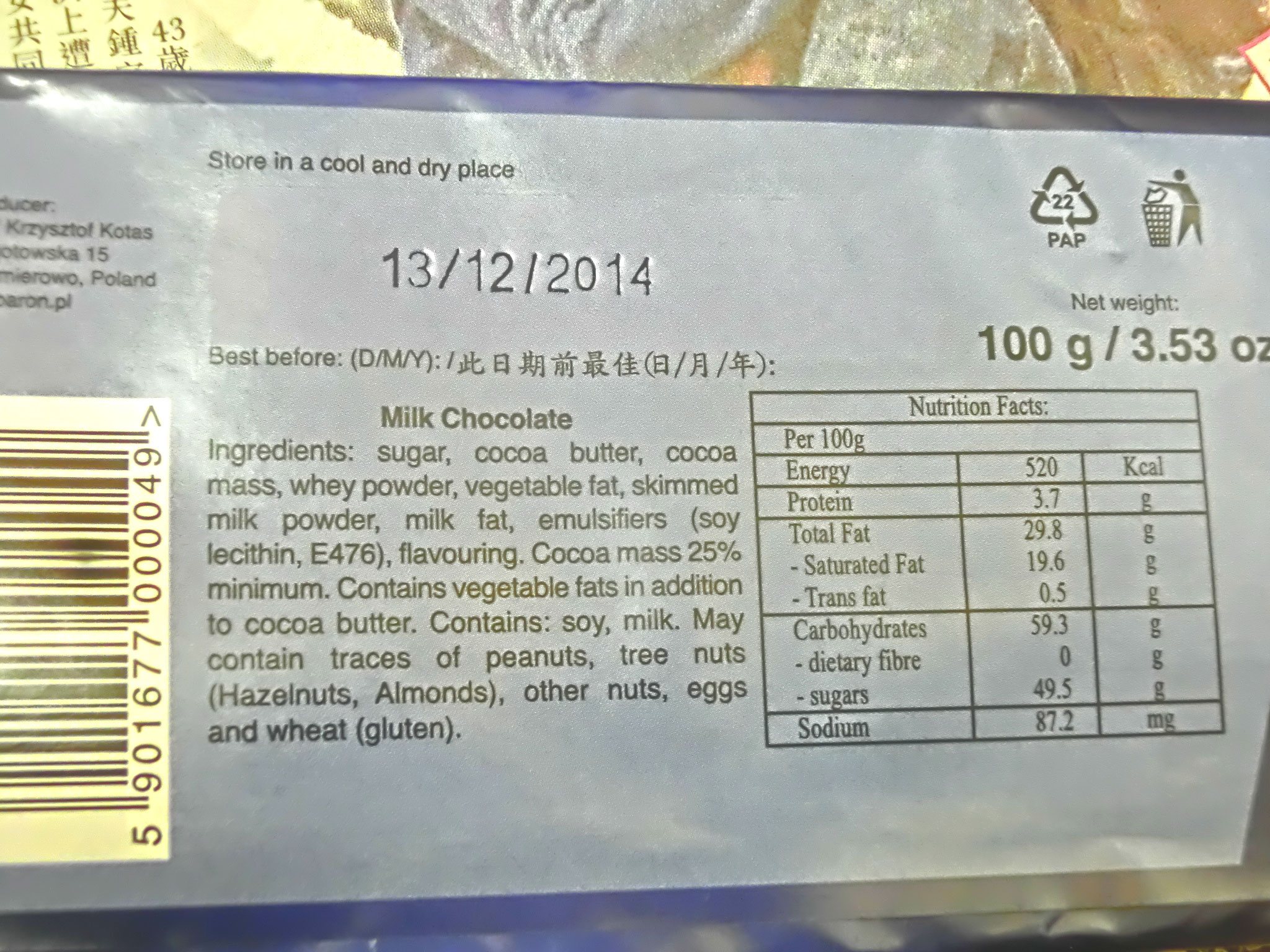 Food products in Hong Kong market